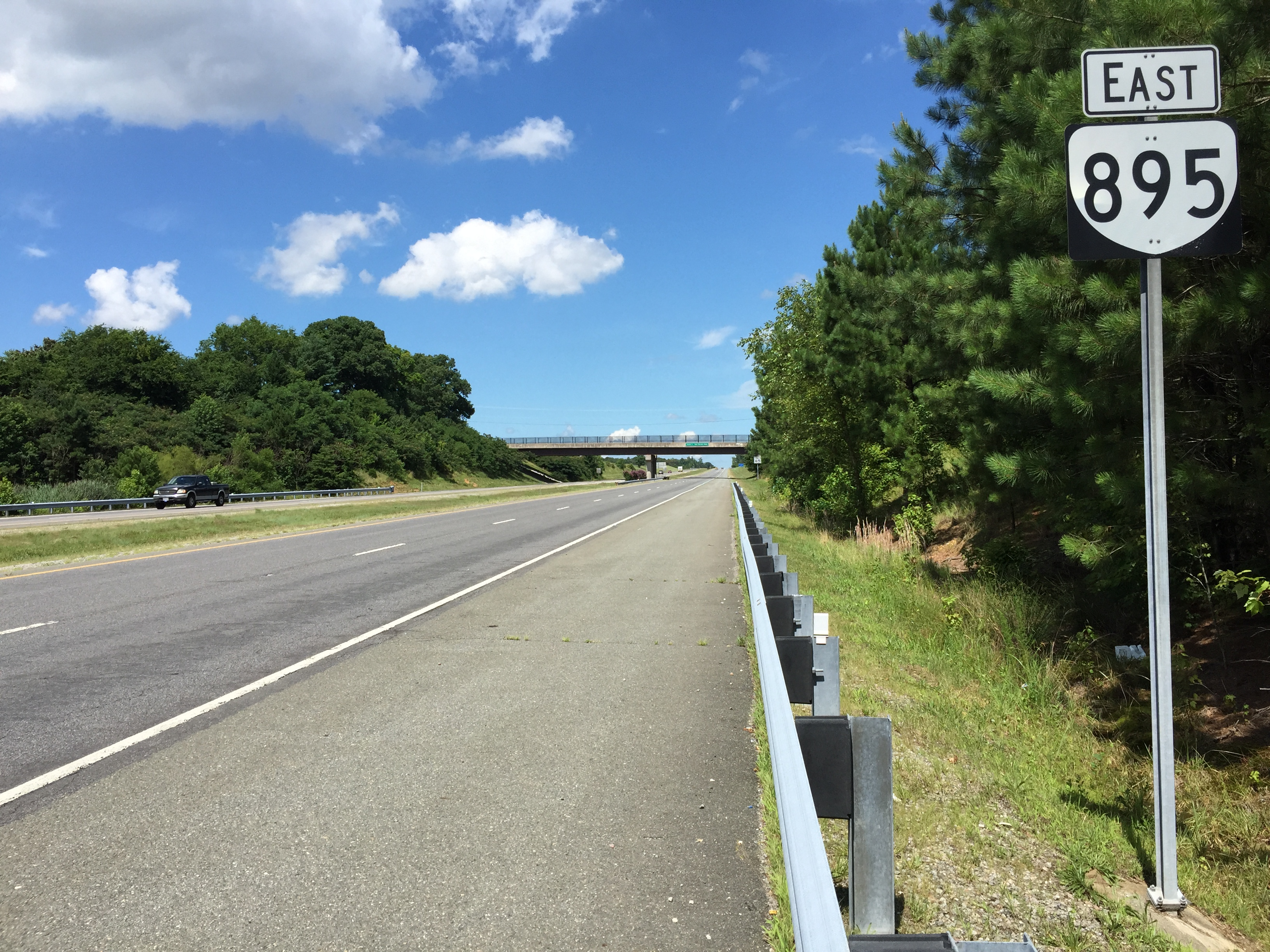 View east along Virginia State Route 895 (Pocahontas Parkway) just east of Laburnum Avenue in Richmond Heights, Henrico County, Virginia